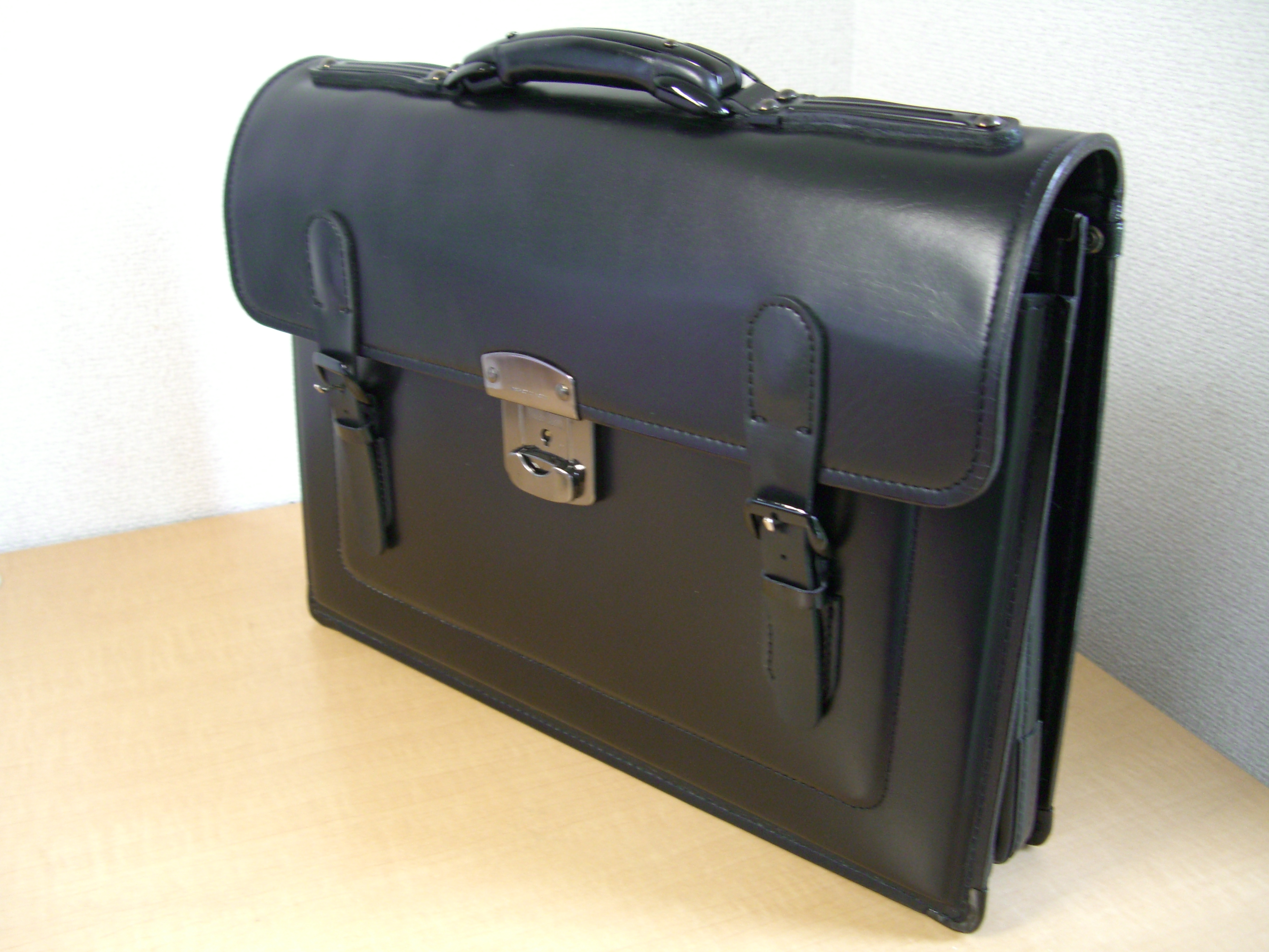 This is a bag for students in Japan. Such bags used to be a required part of student school supplies.